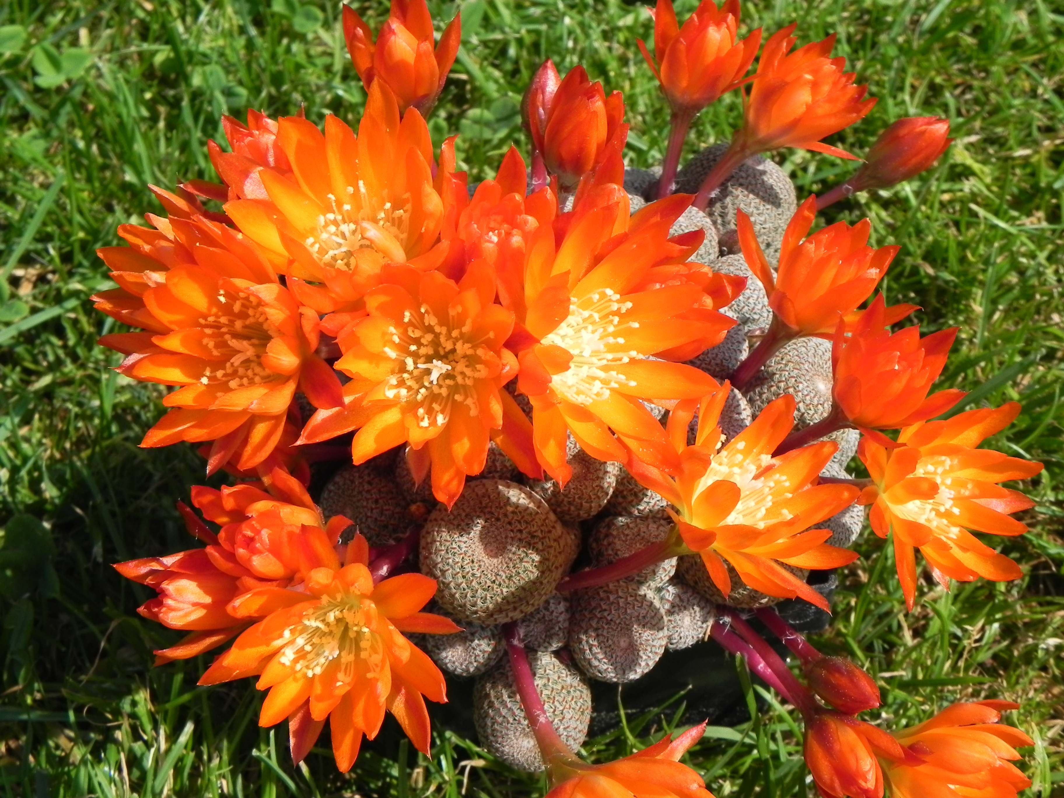 Photo of the cactus Rebutia heliosa Rausch, taken from a plant in cultur, with flowers